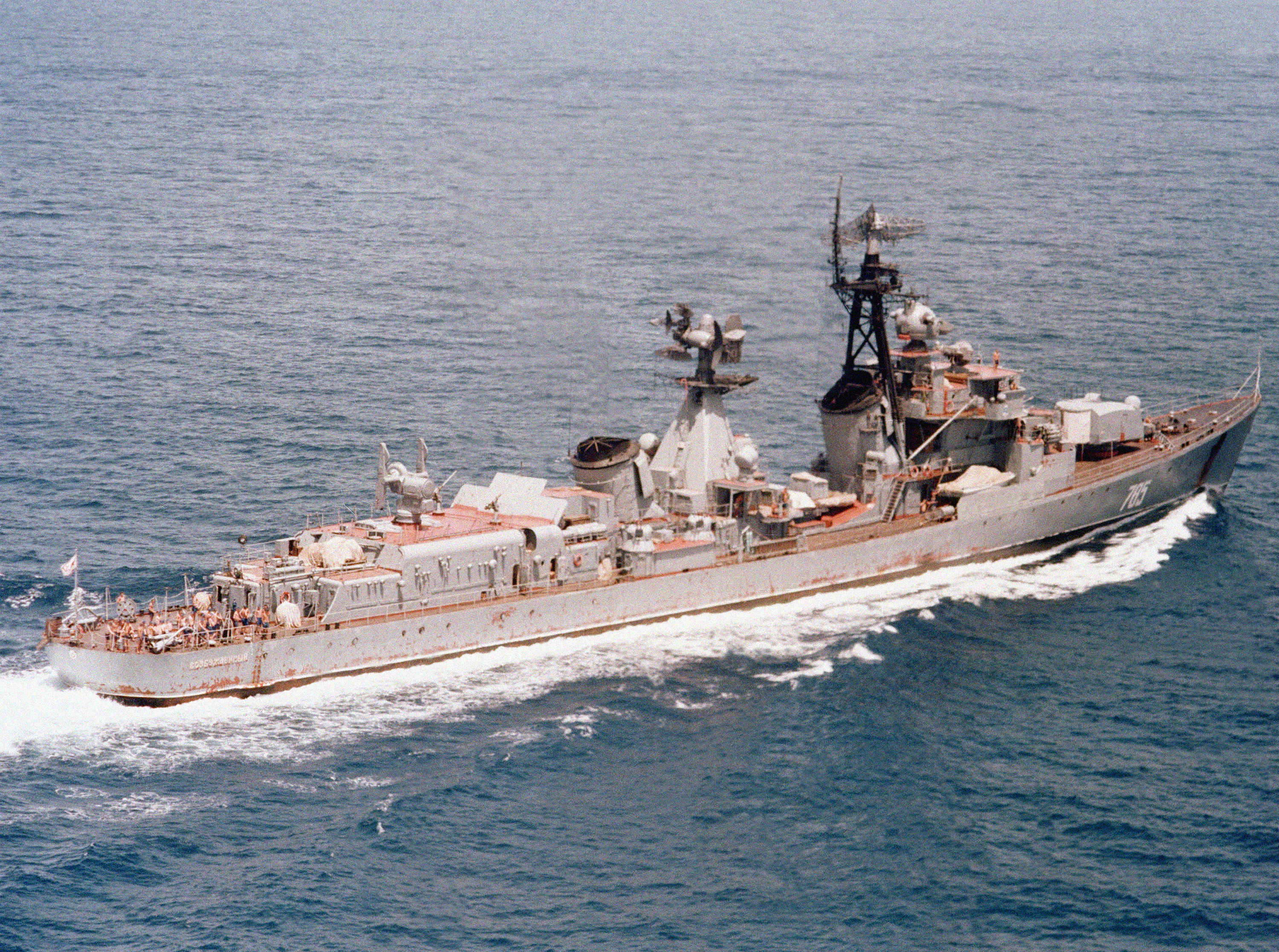 An aerial starboard quarter view of the Soviet SAM Kotlin class guided missile destroyer Vozbuzhdenyy underway. Crewmen are visible on the ship's aft deck. Note the surface-to-air missile launcher aft.